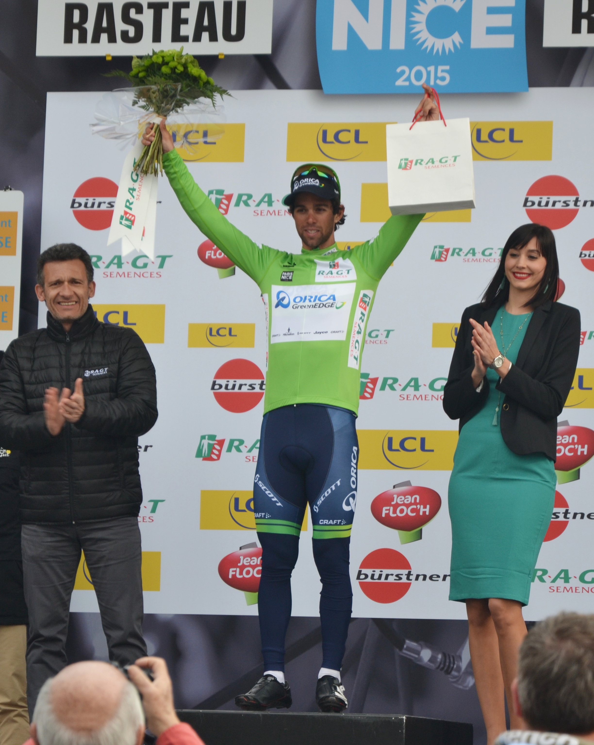 Cropped from File:Poduim - Michael Matthews maillot vert Rasteau.JPG by Marianne Casamance